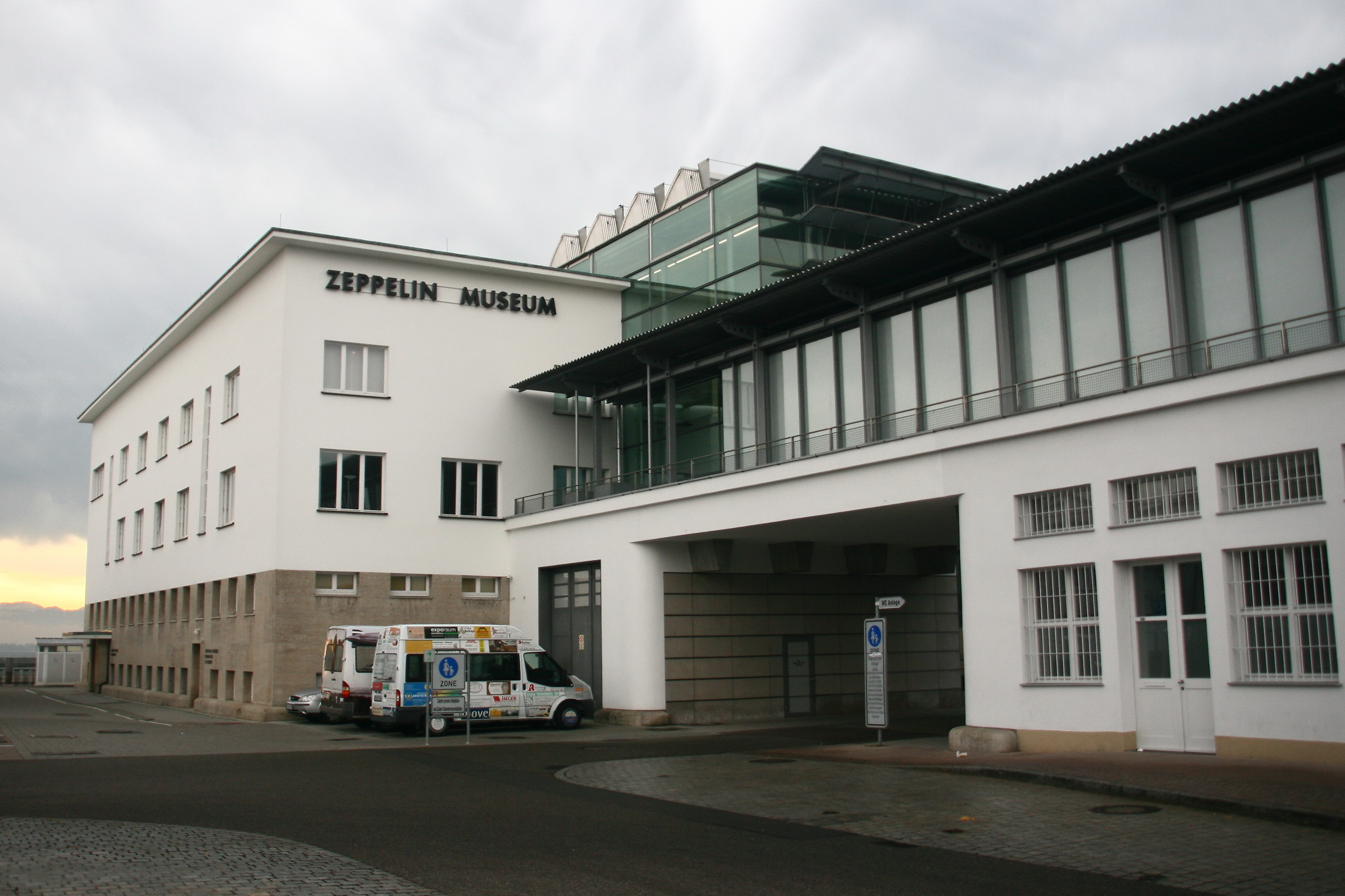 Zeppelin Museum Friedrichshafen viewed from the bus station.